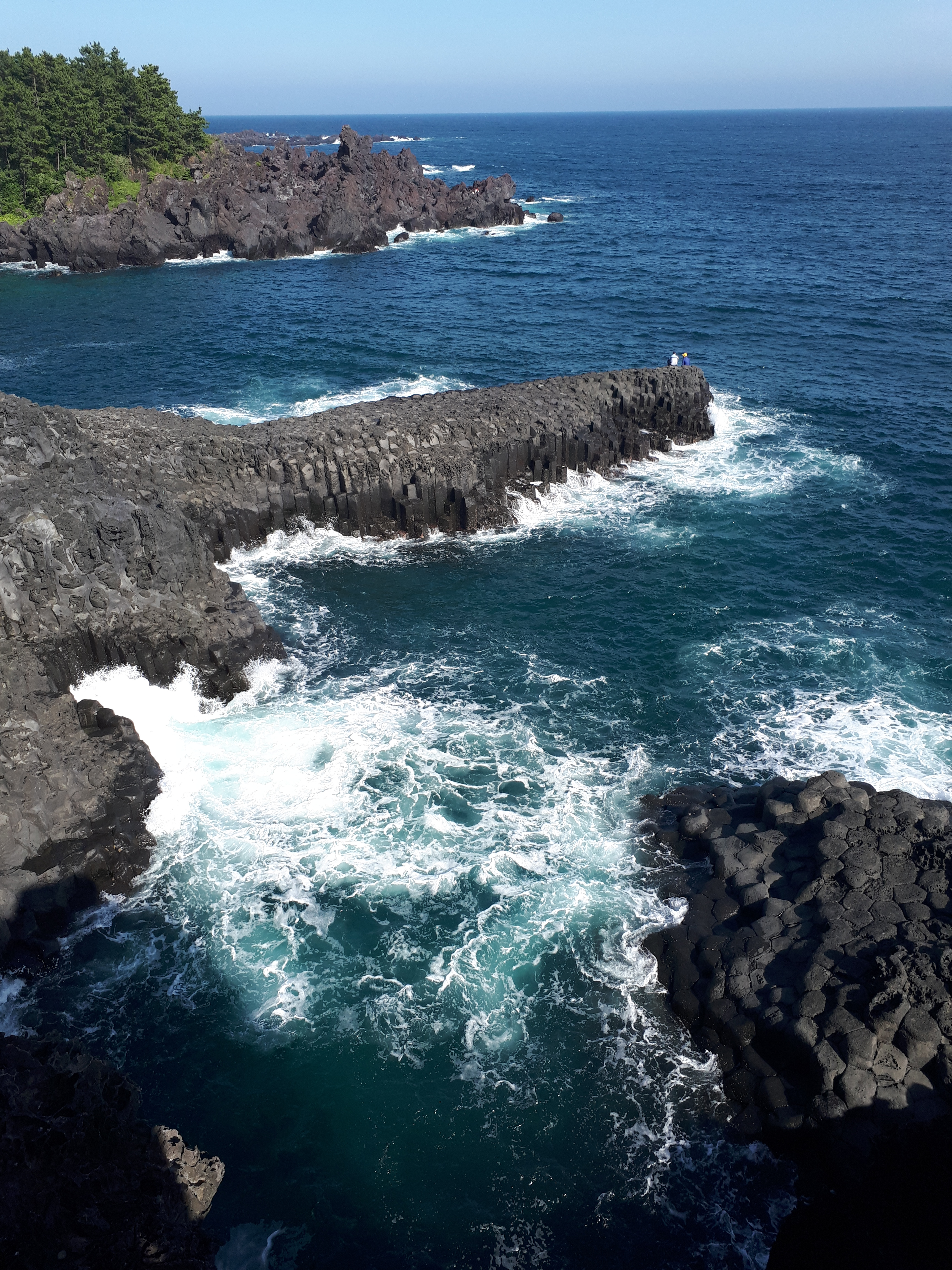 Cliff in Jeju Island